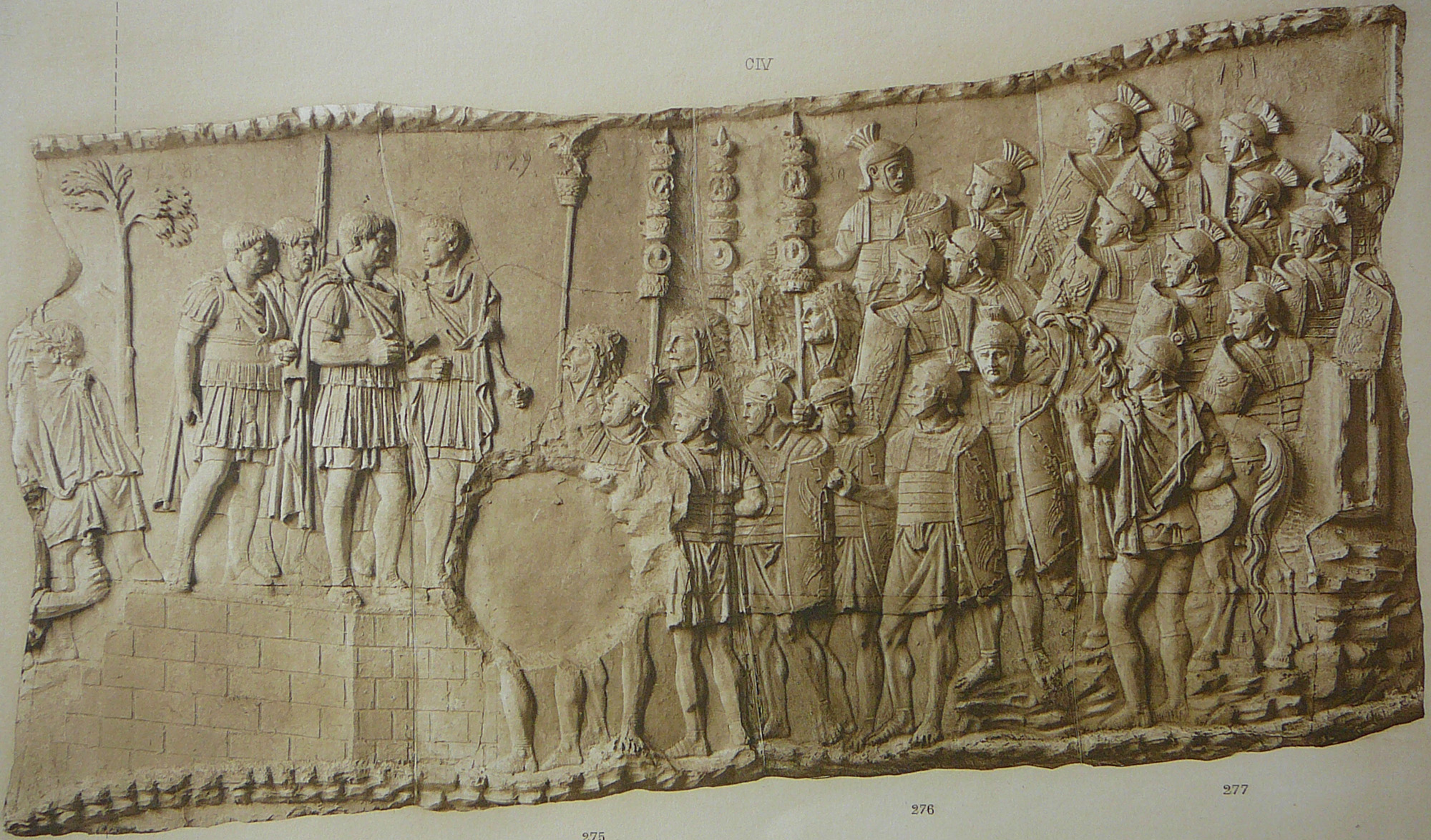 Trajan addresses his troops (scene CIV)